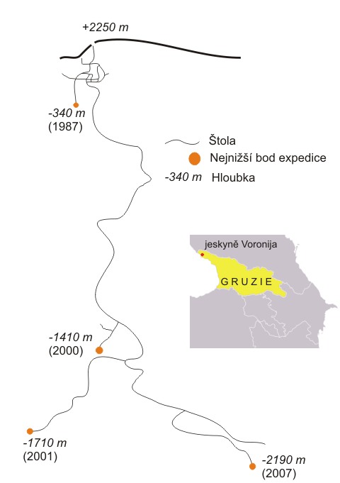 Schema of caves Kruber-Voronija (Caucasus), Georgia